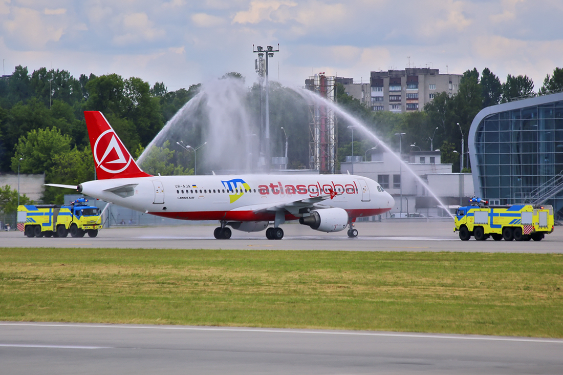 Inaugural Atlasjet Ukraine flight from Kiev Zhulyany to Lviv, operated by Airbus A320 (UR-AJA), receiving a water cannon salute after arriving in Lviv